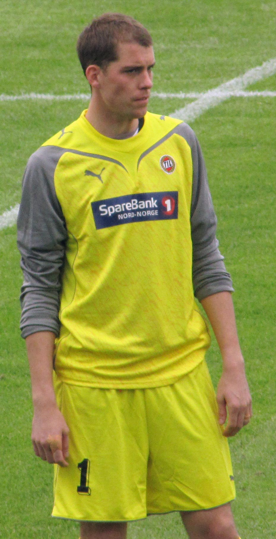 The Swedish footballer Marcus Sahlman (Tromsö IL) at a match with Dinamo Minsk in Minsk, Belarus.